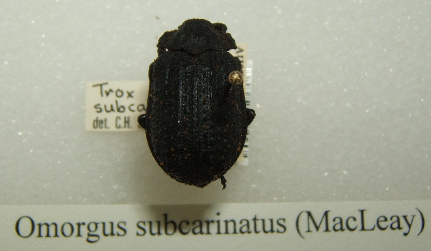 Omorgus subcarinatus adult taken by Shawn Hanrahan at the Texas A&M University Insect Collection in College Station, Texas.